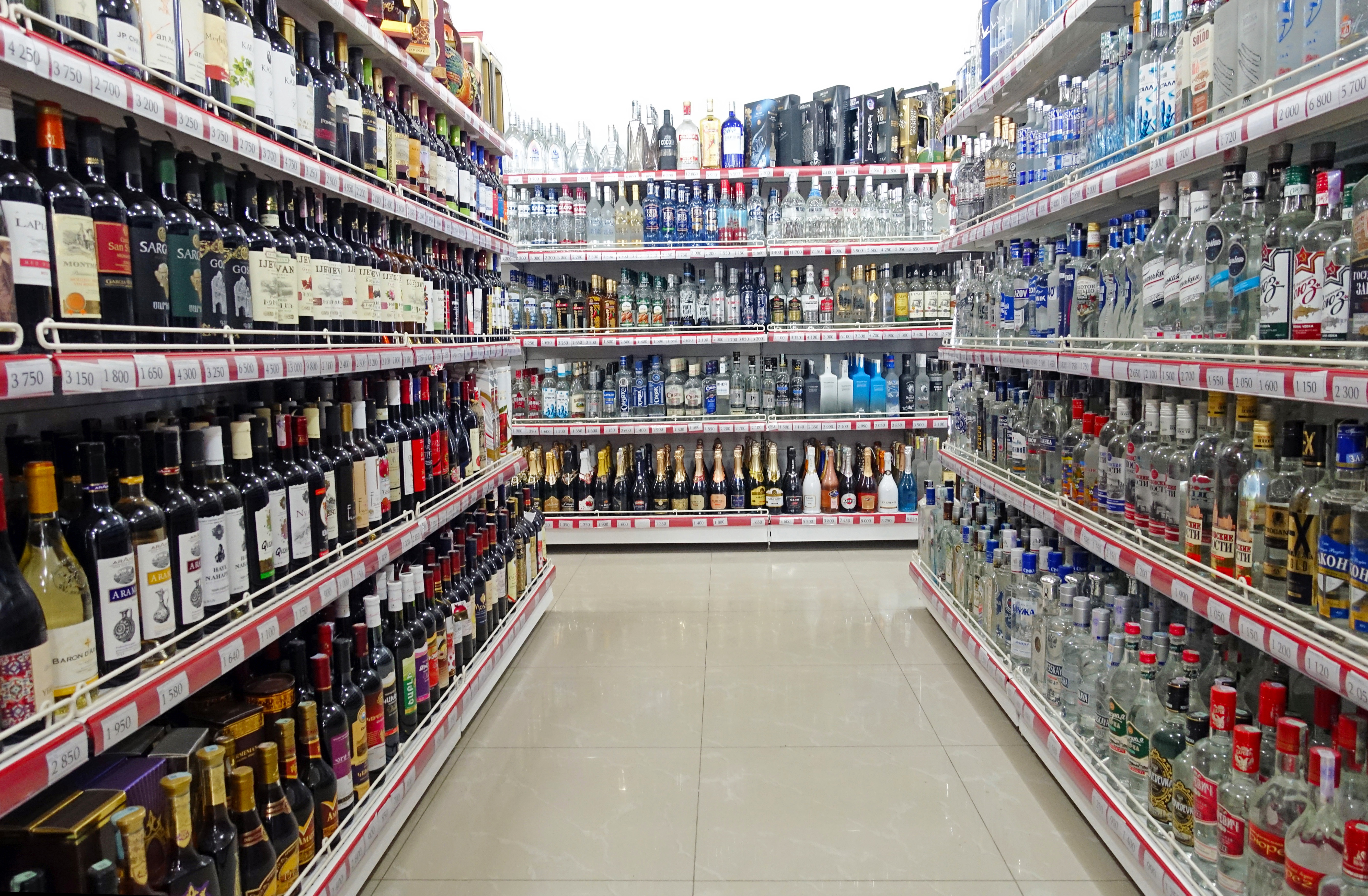 Alcohol bottles in supermarket, Gyumri, Armenia.